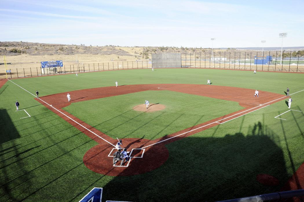 The newly renovated Falcon Field at the U.S. Air Force Academy hosted Colorado Christian in the Falcons home opener March 2, 2010. The new playing surface consists entirely of synthetic Field Turk except for the pitching mound. Air Force beat Colorado Christian 15-5. (U.S. Air Force photo/Mike Kaplan)